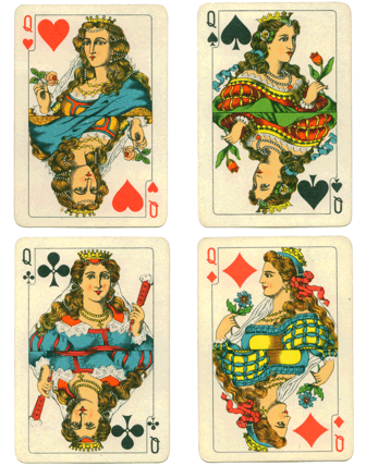 Four queens in a popular style of Austrian Piatnik (modified Rhine suite, popular in Poland since at least 1920s).